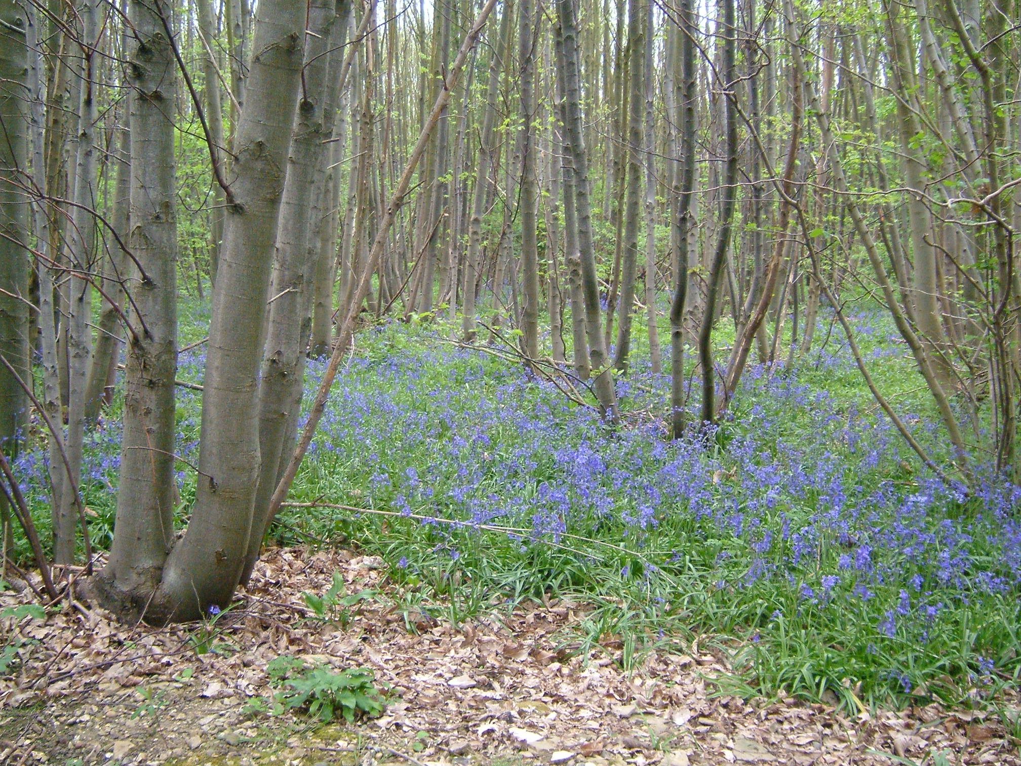 Hyacinthoides non-scripta – The Bluebell Wood on Merrall Shaw, in Ranscombe Farm Nature Reserve near Cuxton, Kent. This is close to The North Downs Way.